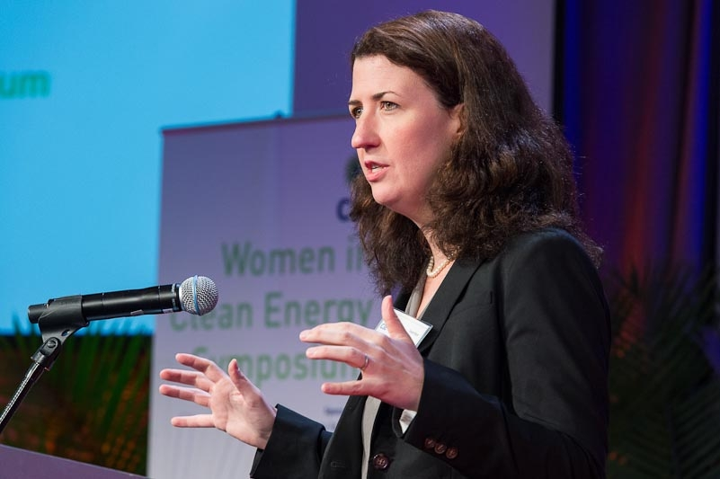 At the Women in Clean Energy Symposium